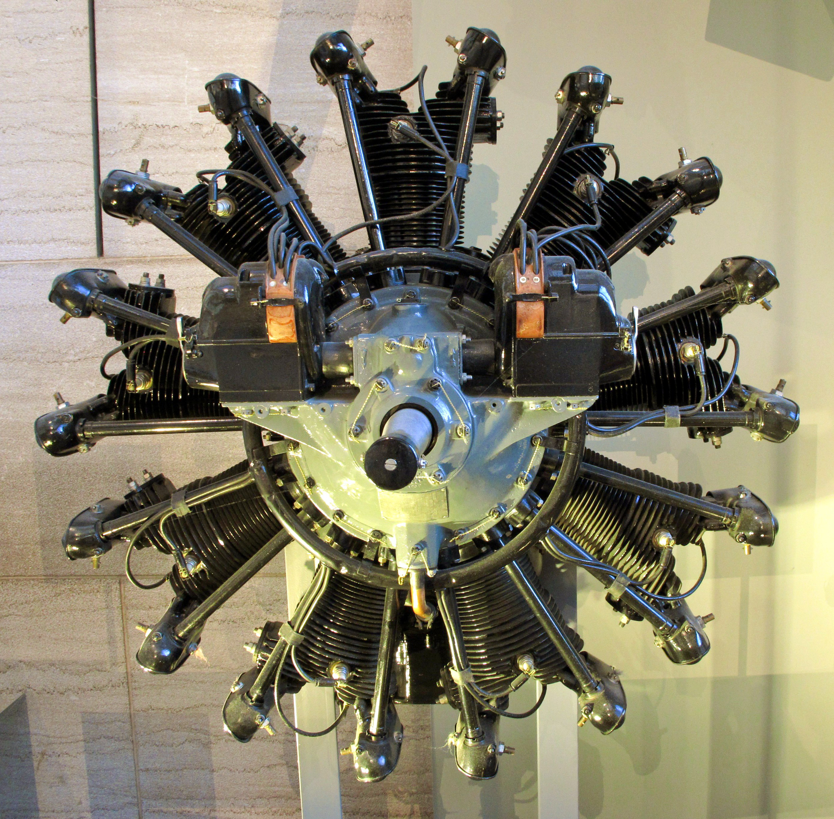 The Wright J-5 Whirlwind aircraft engine. Developed by the Wright Aeronautical Corporation from its Lawrance J-1 engine, the J-5 produced 220 horsepower and was the first engine to have sodium-cooled exhaust valves and to be self-lubricating. These innovations greatly increased its reliability. The J-5 won the prestigious Collier Trophy for 1927. Type: Air-cooled radial Cylinders: 9 Displacement: 12.9L (788 cu in) Power: 220 hp at 1,800 rpm. Weight: 232 kg (510 lb) Manufacturer: Wright Aeronautical Corp., Paterson, N.J.